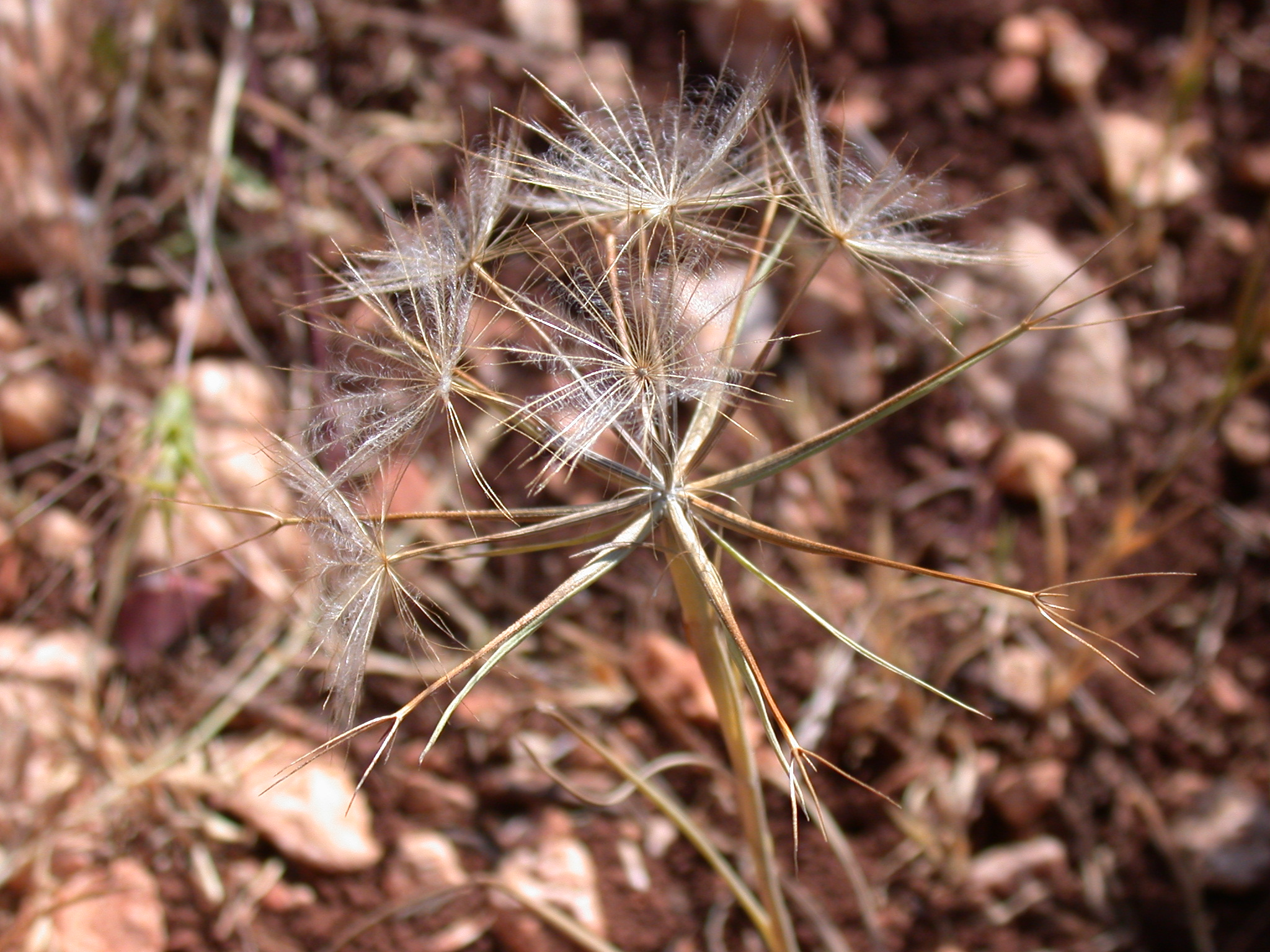 Geropogon hybridus (L.) Sch.Bip. (זקן-סב מצוי), Mount Carmel, Israel, May 2, 2008.